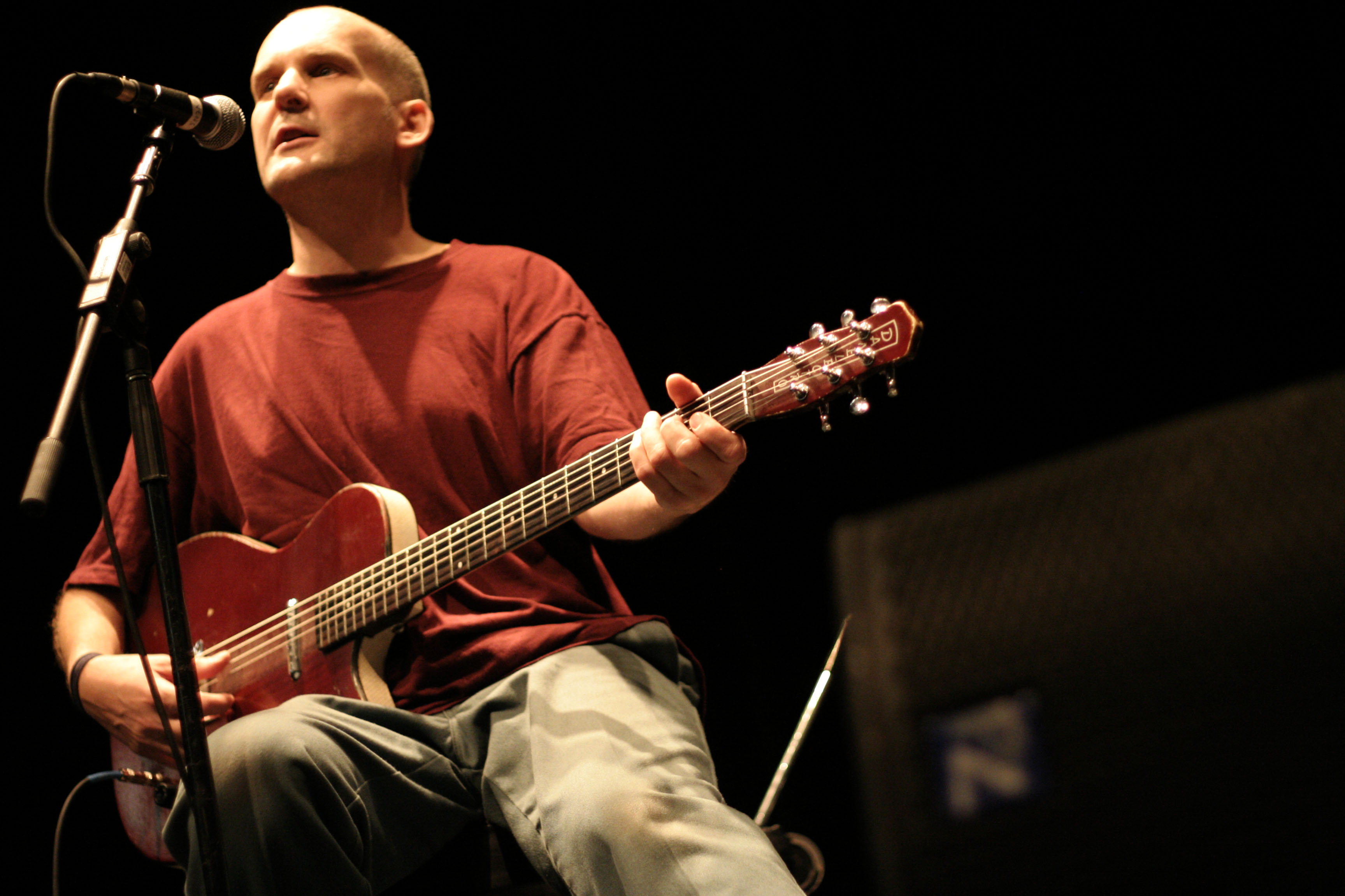 Ian MacKaye, The Evens